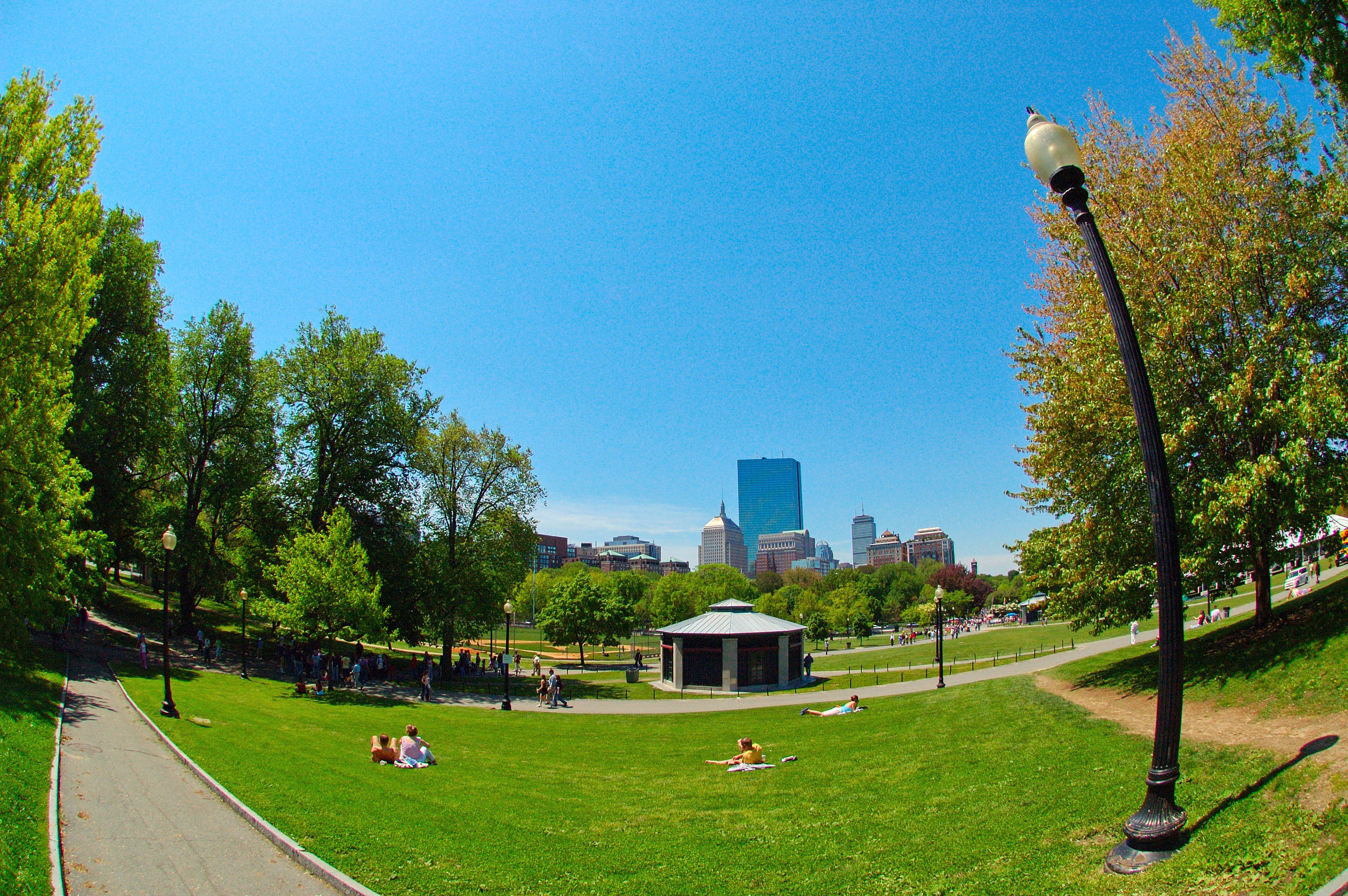 Boston Common, Taken With Nikon D70 & 10.5mm Fisheye Nikkor